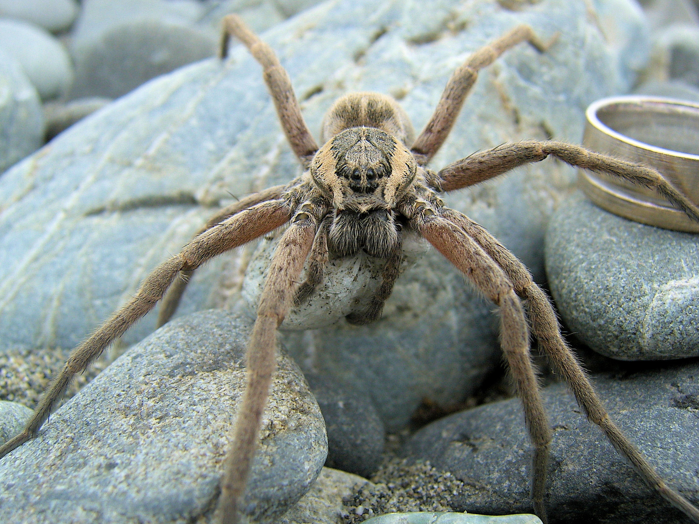 Female Dolomedes aquaticus with egg sac